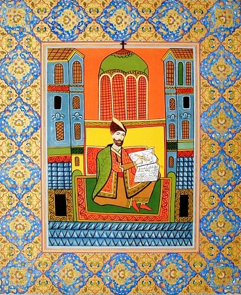 Shota Rustaveli by Grigory Gagarin. Based on